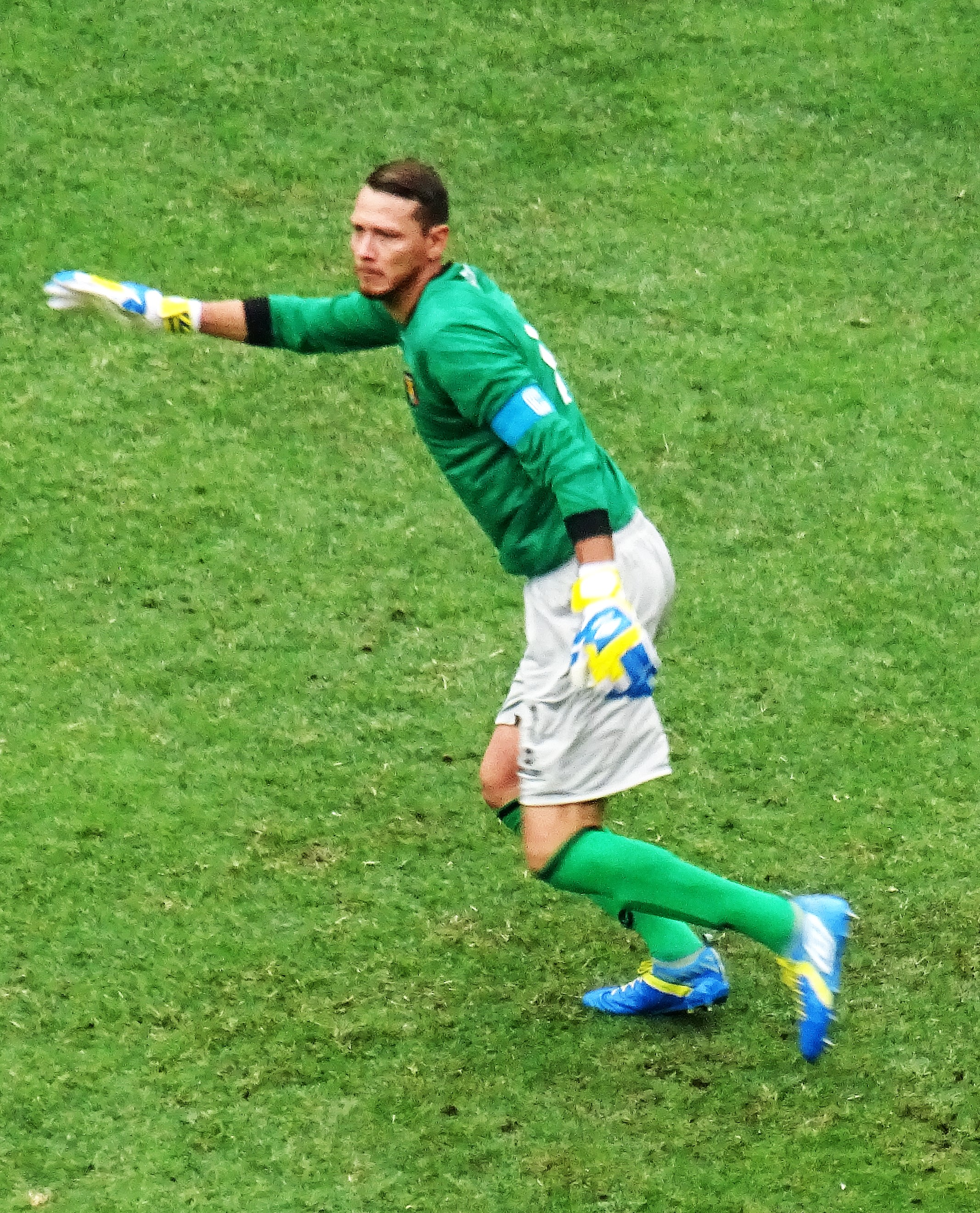 Diego Penny (Lima, 1984) Peruvian goalkeeper. National Stadium, Peru 2018